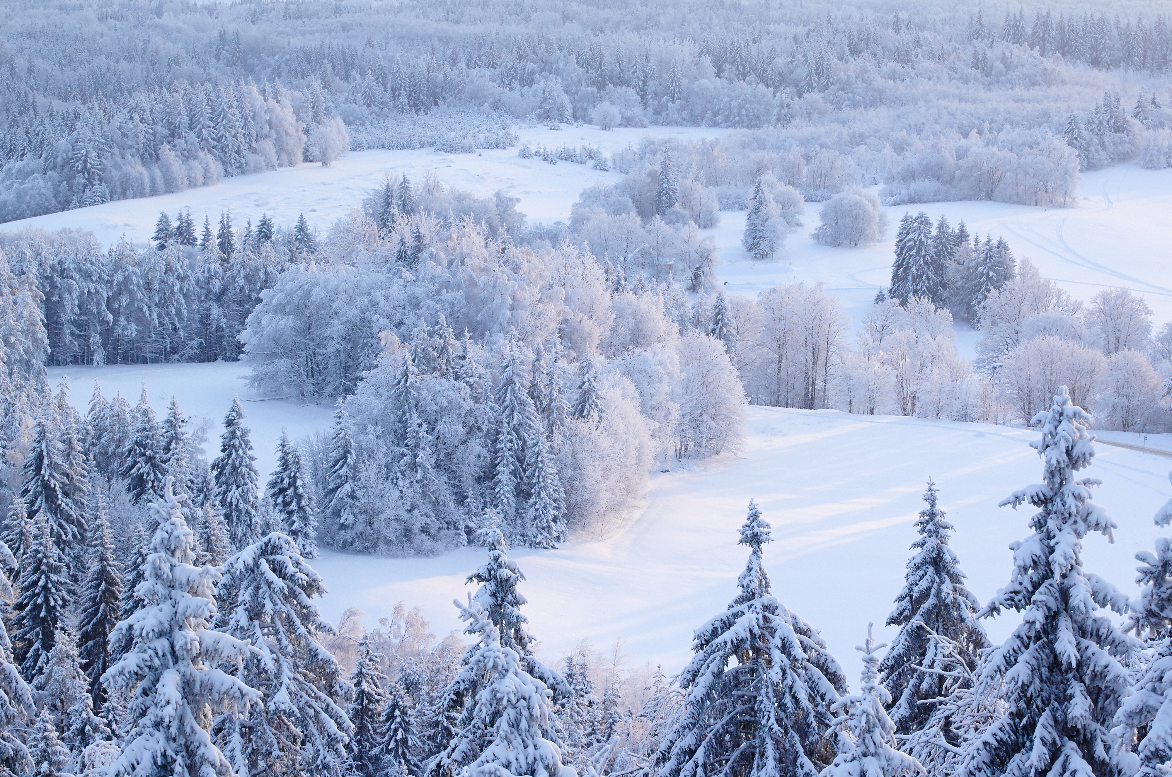 Haanja Upland in winter seen from Suur Munamägi observation tower, the highest peak in Estonia.